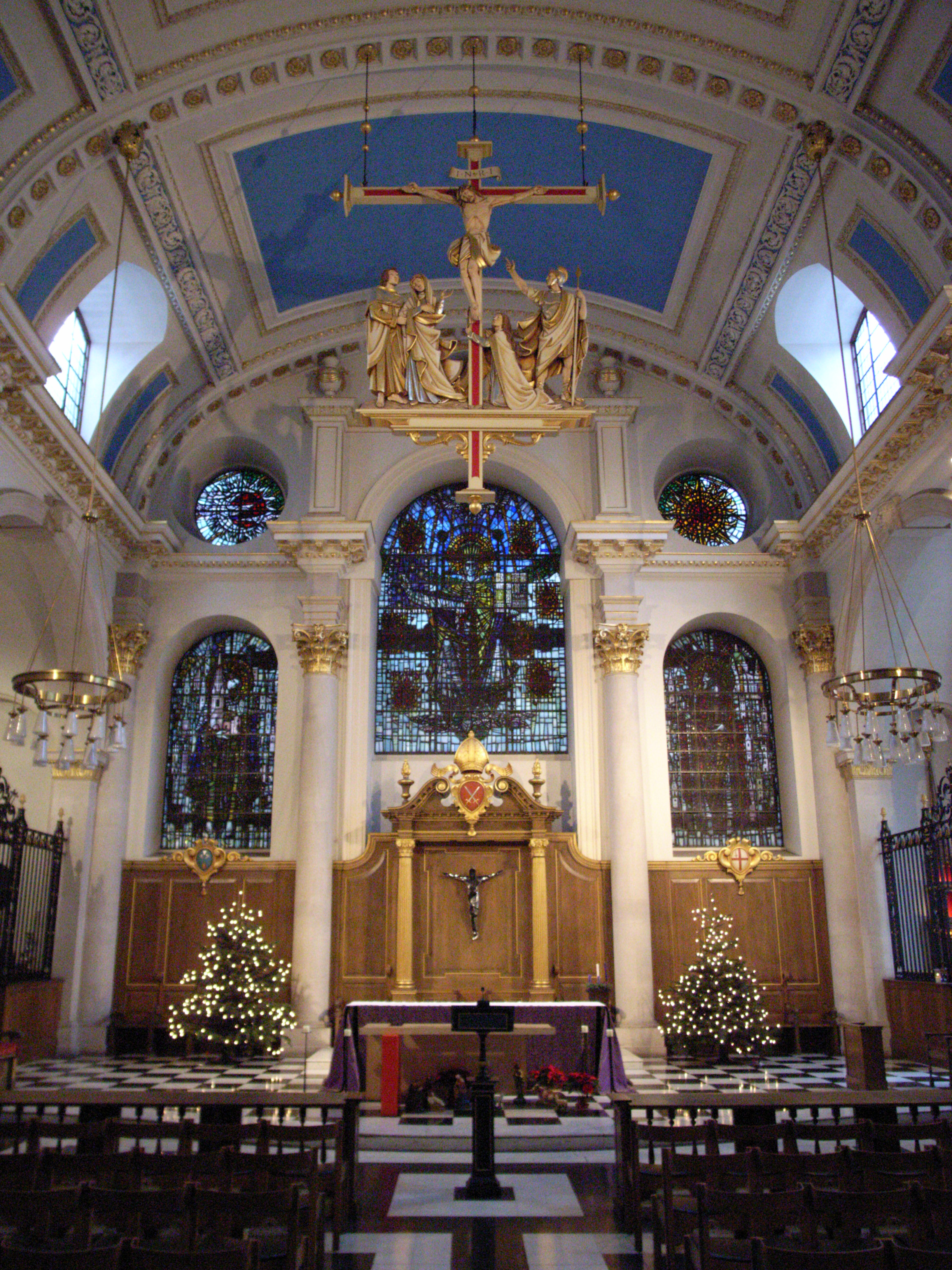 The interior of St Mary-le-Bow; historical church in the City of London.